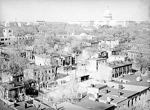 Looking northeast over the Southwest quadrant of Washington, D.C., in July 1939. The United States Capitol dome can be seen in the rear of the image. The small Southwest quadrant of the city was the smallest and one of the most poverty-stricken in the first five decades of the 20th century. Victorian-style townhouses were built along tree-lined streets, but many had fallen into extreme disrepair. Running water, indoor plumbing, indoor toilets, electricity, and sewers were rare in the area until after the late 1950s. The alleys in the area were exceptionally wide, built to accommodate deliveries of water, coal, wood, and food by horse-drawn wagon. Dwellings made of discarded wood, brick, and stone (known as "alley dwellings") were often built in these alleys, leaning against the townhouse for support. The occupants of "alley dwellings" were nearly always poor African American families.